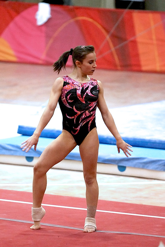 Erika Fasana, an Italian artistic gymnast, during a floor routine in 2010.